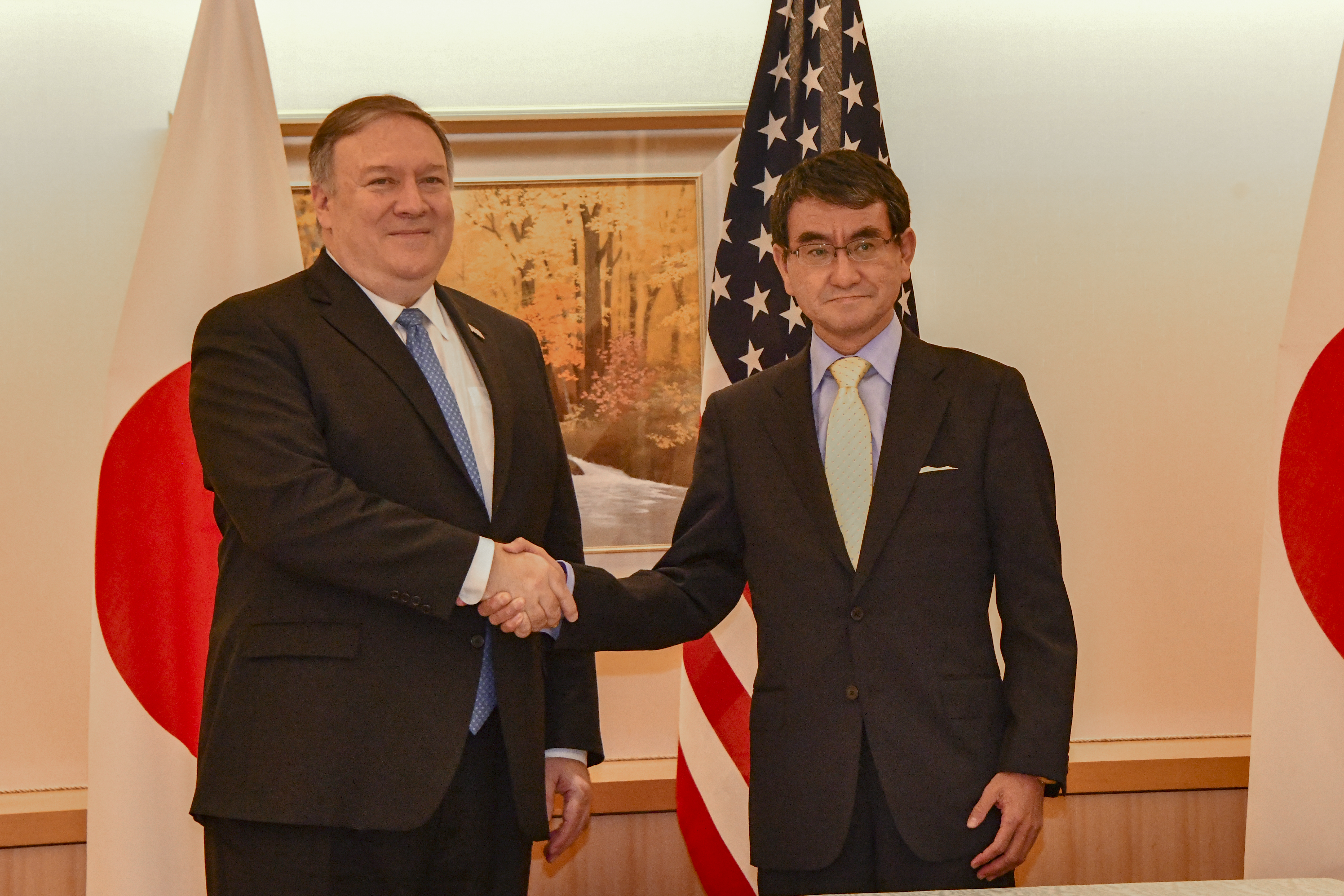 U.S. Secretary of State Michael R. Pompeo meets with Japanese Foreign Minister Taro Kono at the Ministry of Foreign Affairs in Tokyo, Japan on October 6, 2018. [State Department photo/ Public Domain]